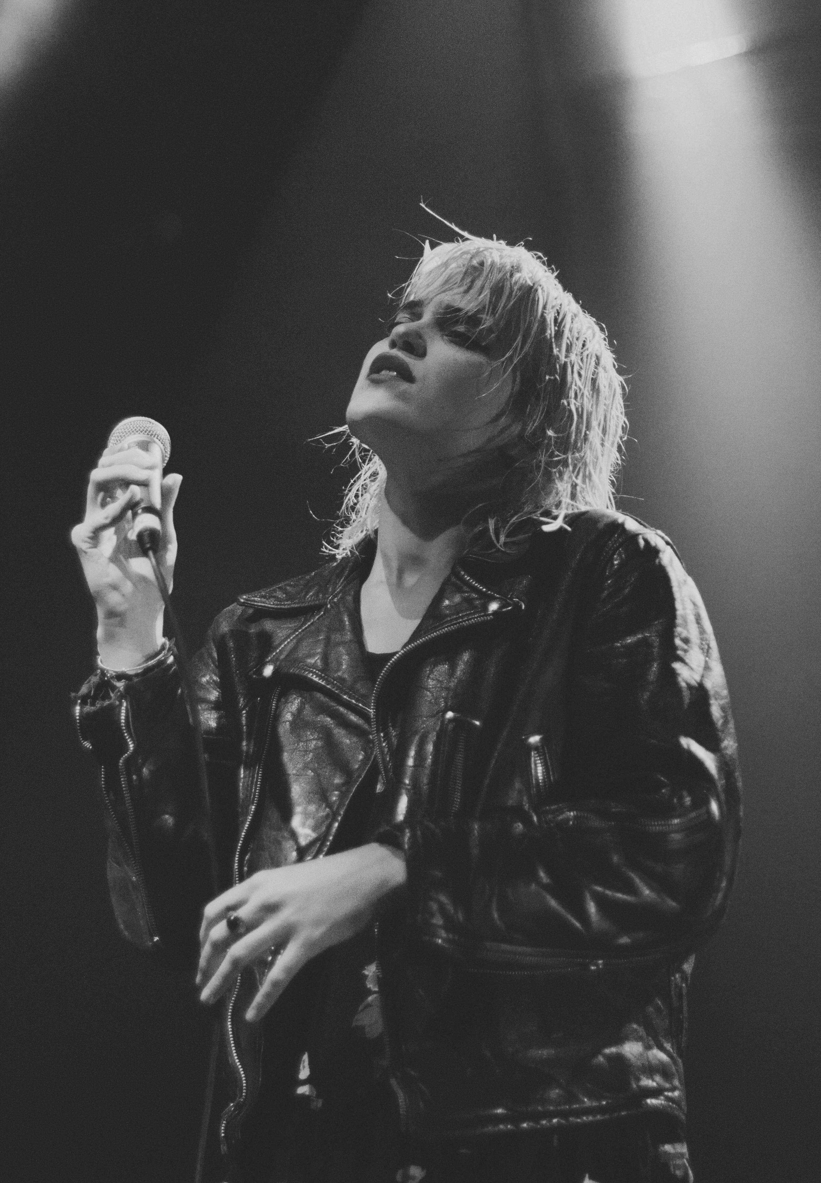 Sky Ferreira live 09/24/2013